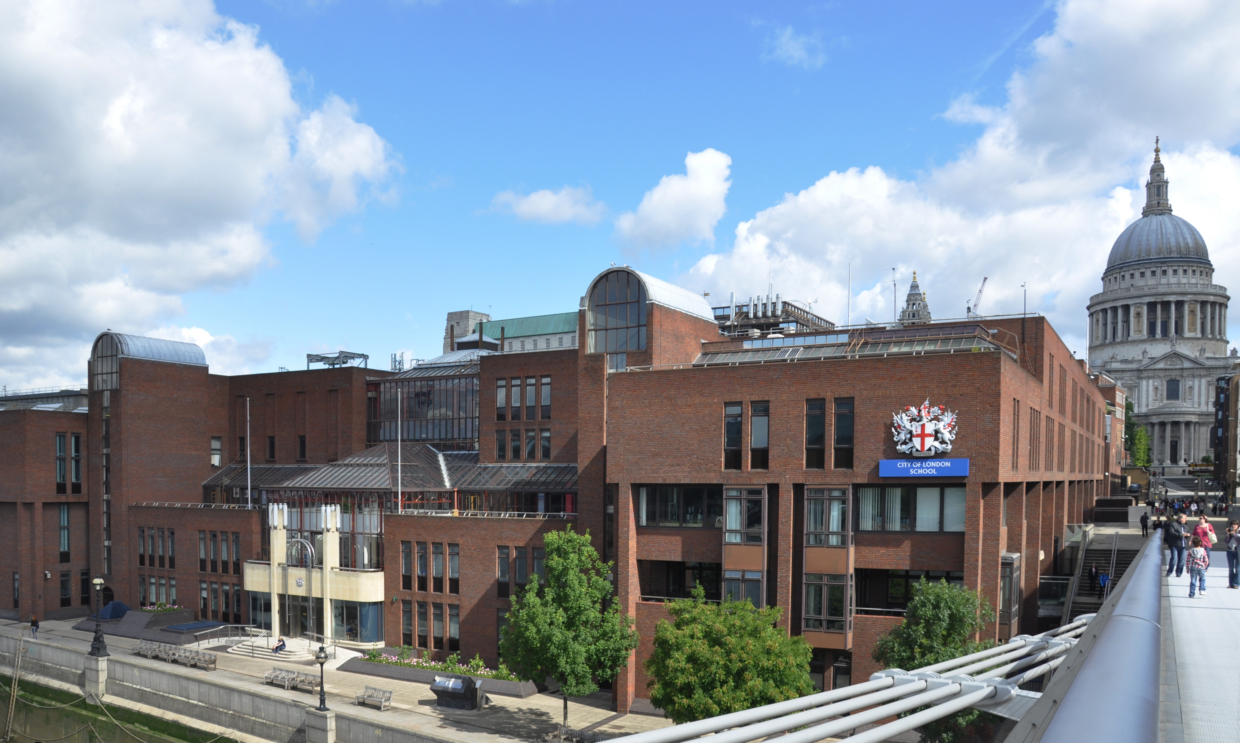 London, City of London School (seen from Millennium Bridge; to the right is the dome of Saint Paul's Cathedral)